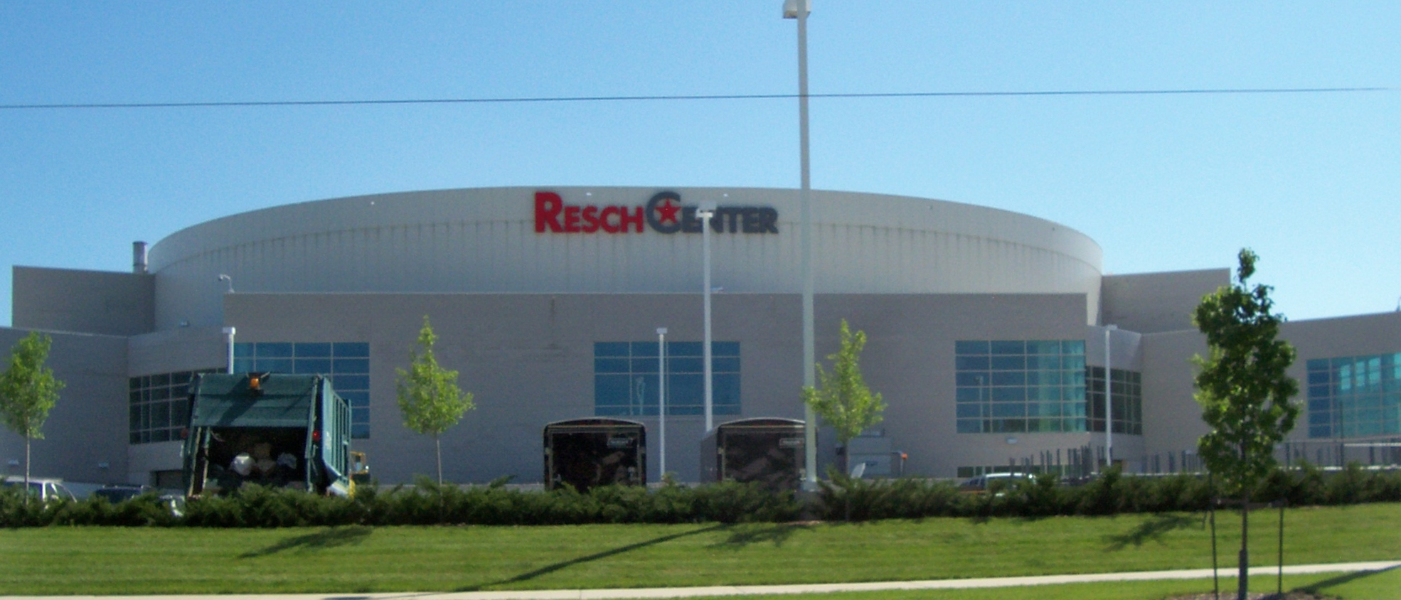 The Resch Center in Green Bay, Wisconsin, USA. Taken on the Lombardi Avenue side.